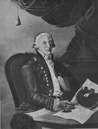 Engraving of José de Alós y Bru, II Marquese de Alós